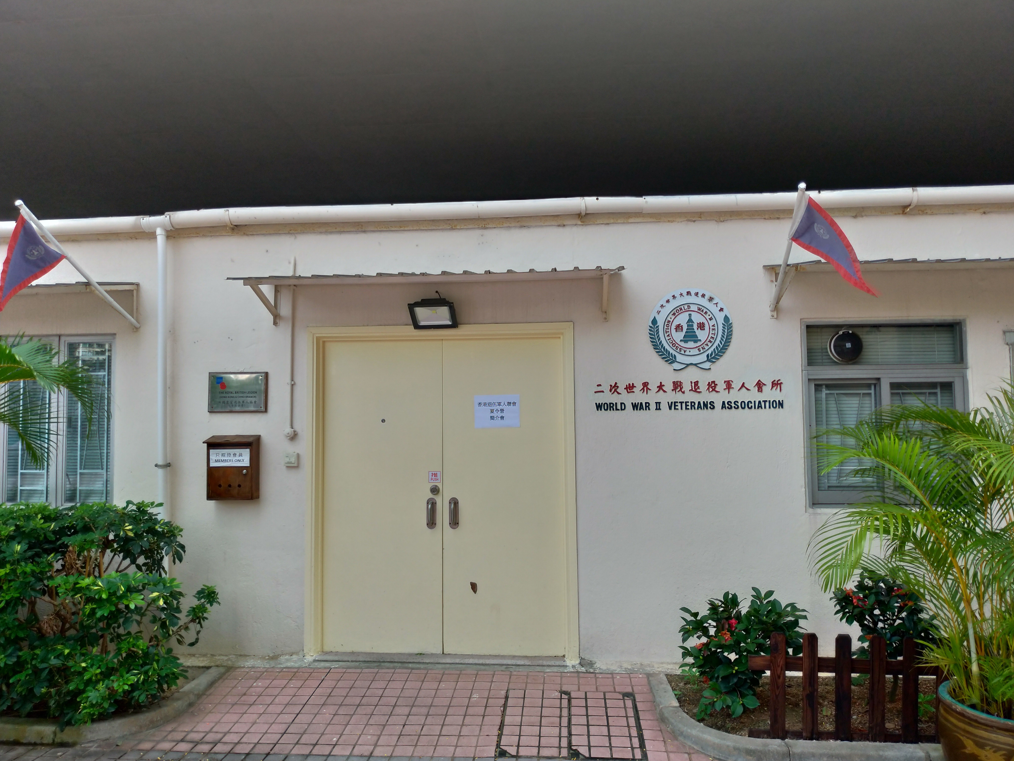 World War 2 Veterans Association in Hong Kong.